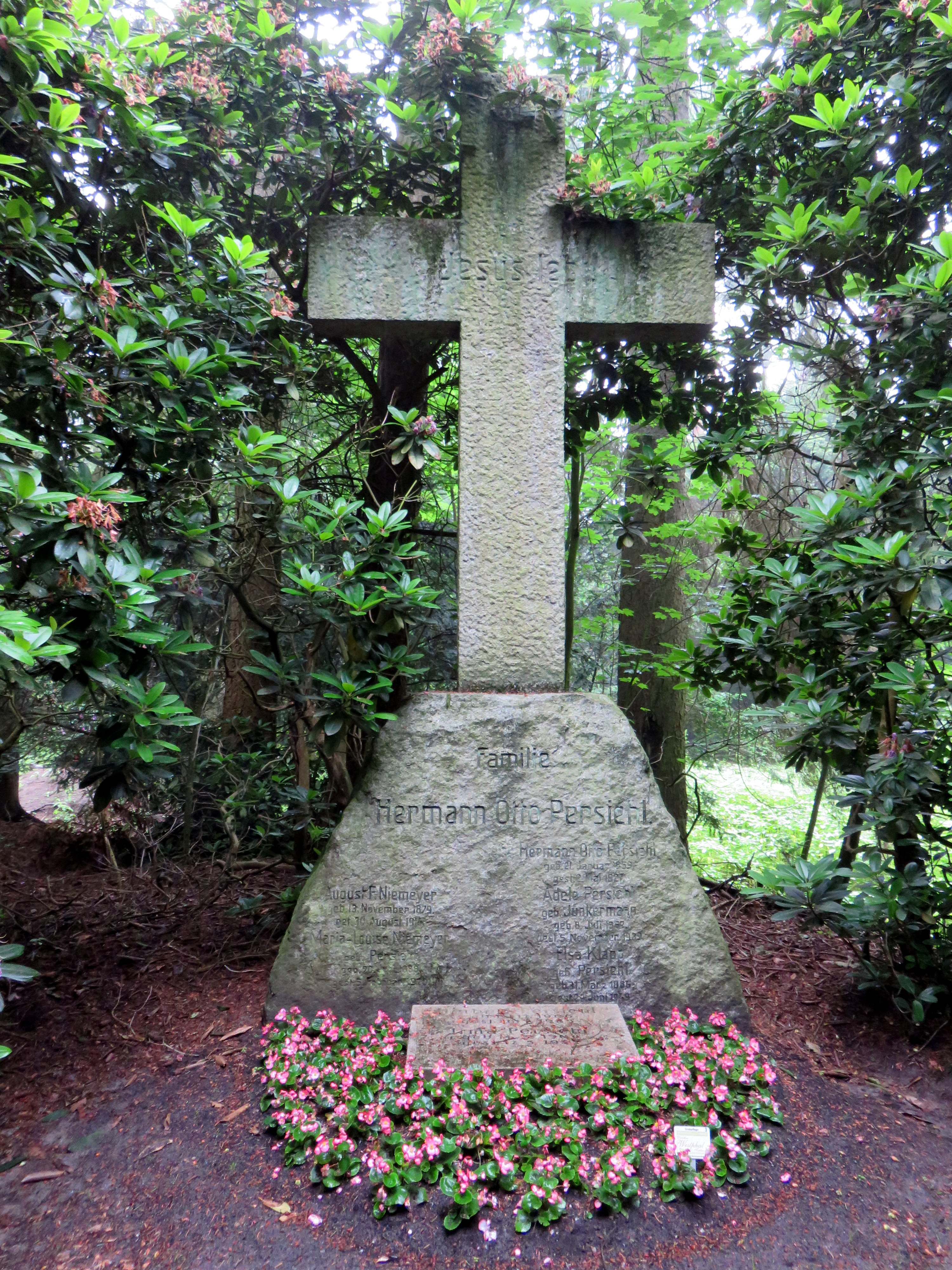 Grave for German entrepreneur and member of the Hamburg Parliament Hermann Otto Persiehl (1859–1927), Friedhof Ohlsdorf, map AB 11, Norderstraße (between chapel 8 and pond Nordteich).